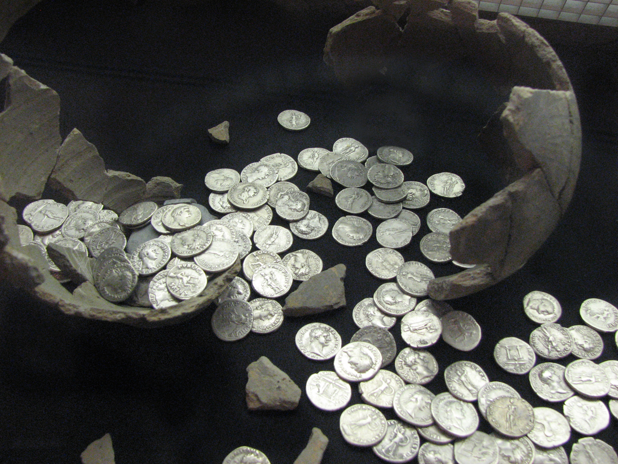 Hoard of Roman coins (599 silver denarii that were hidden in a locally made cooking pot) discovered at Llanvaches, Monmouthshire in 2006; now held at the Caerleon Museum. From the date of the latest coin the hoard was probably buried around A.D. 160. These coins were found in June 2006 at Llanvaches, near Caerwent. Many retired soldiers of the Second Augustan Legion settled in the nearby town of Venta Silurum, which is now Caerwent.